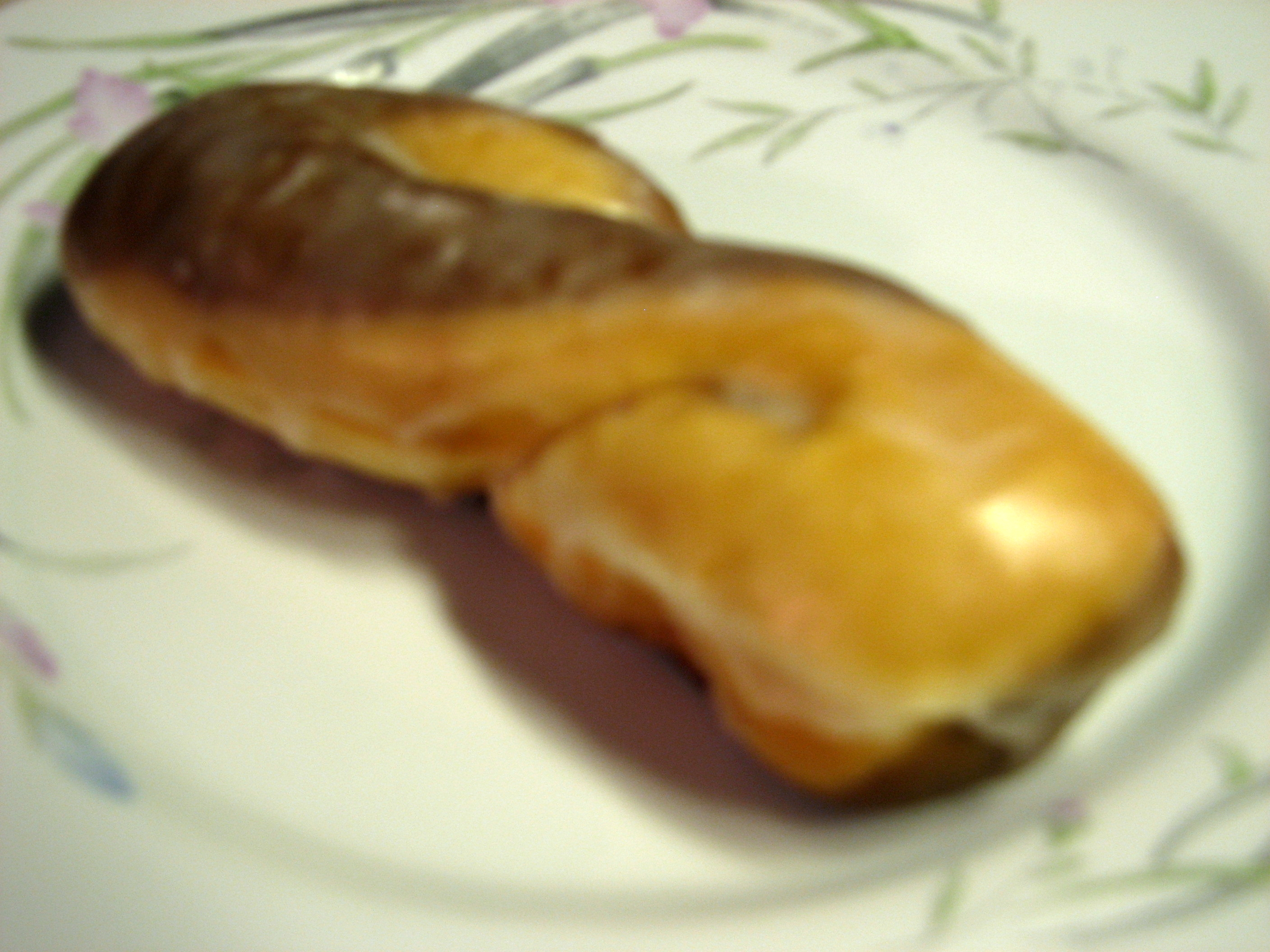 A glazed tiger tail doughnut bought from an Acme Fresh Market grocery store in Hudson, Ohio. In comparison to others, this particular one is small, as tiger tails are often longer and have multiple twists, while this one only has one.